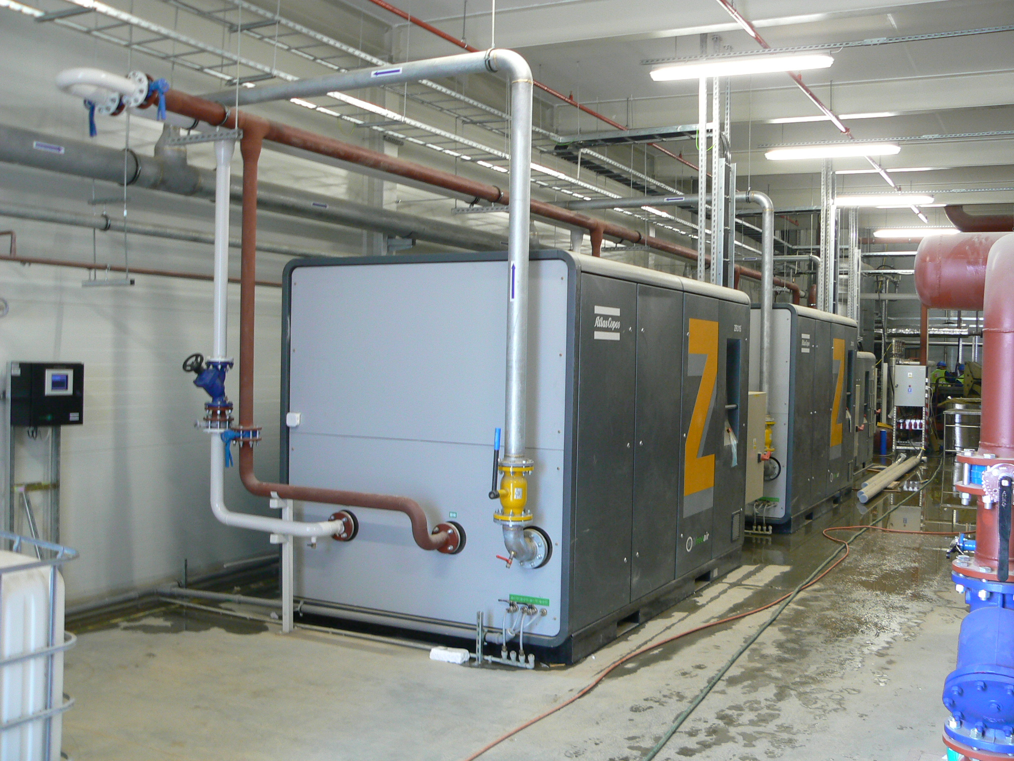 Stationary Compressor